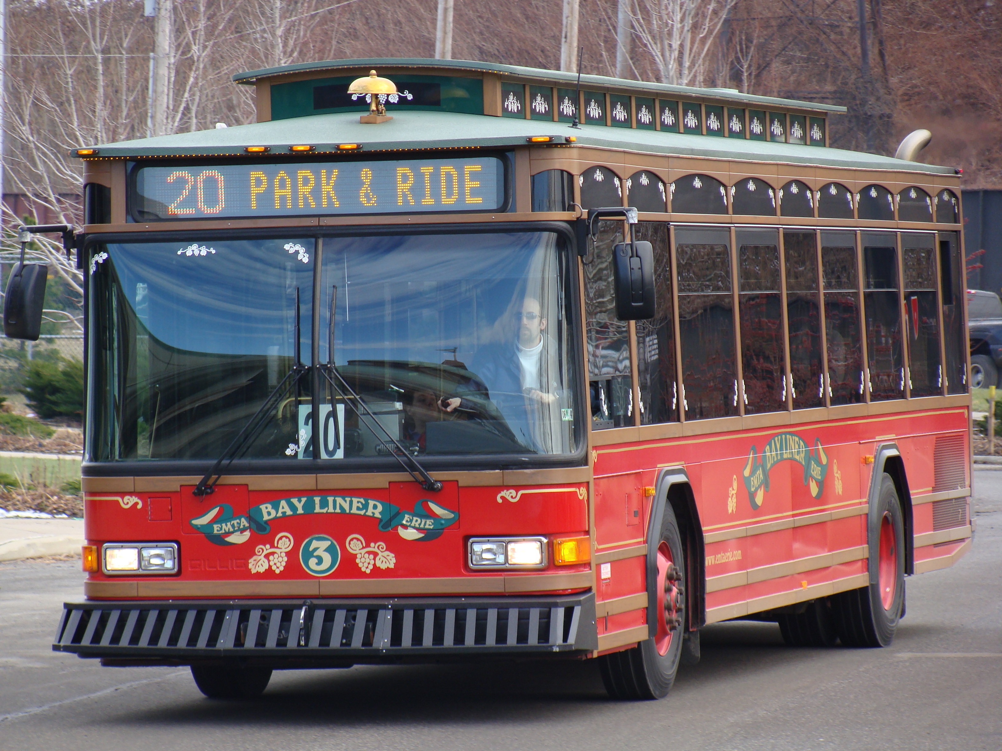 A Gillig Trolley run by the Erie Metropolitan Transit Authority at the Intermodal Center in downtown Erie, Pennsylvania.